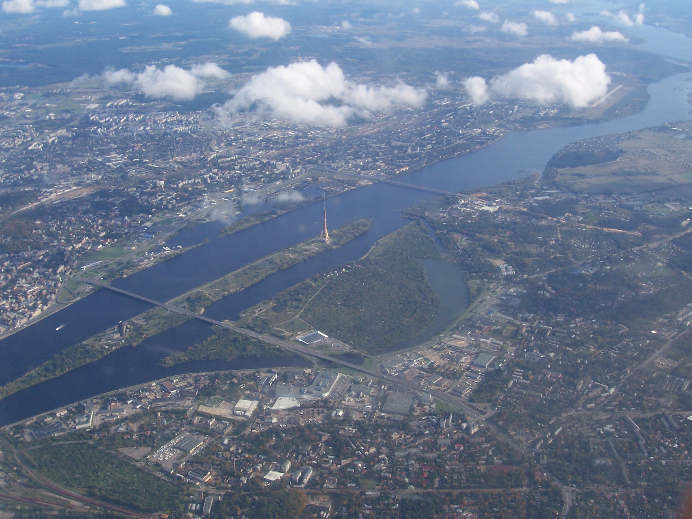 View from a Fokker 50 over Riga